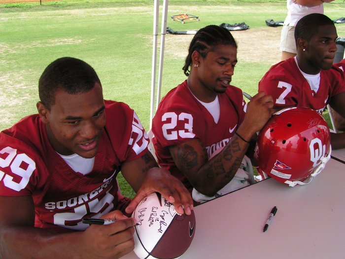 Oklahoma Sooners football players Chris Brown, Allen Patrick and DeMarco Murray (left to right) signing autographs at Oklahoma's Fan Day on August 3, 2007.